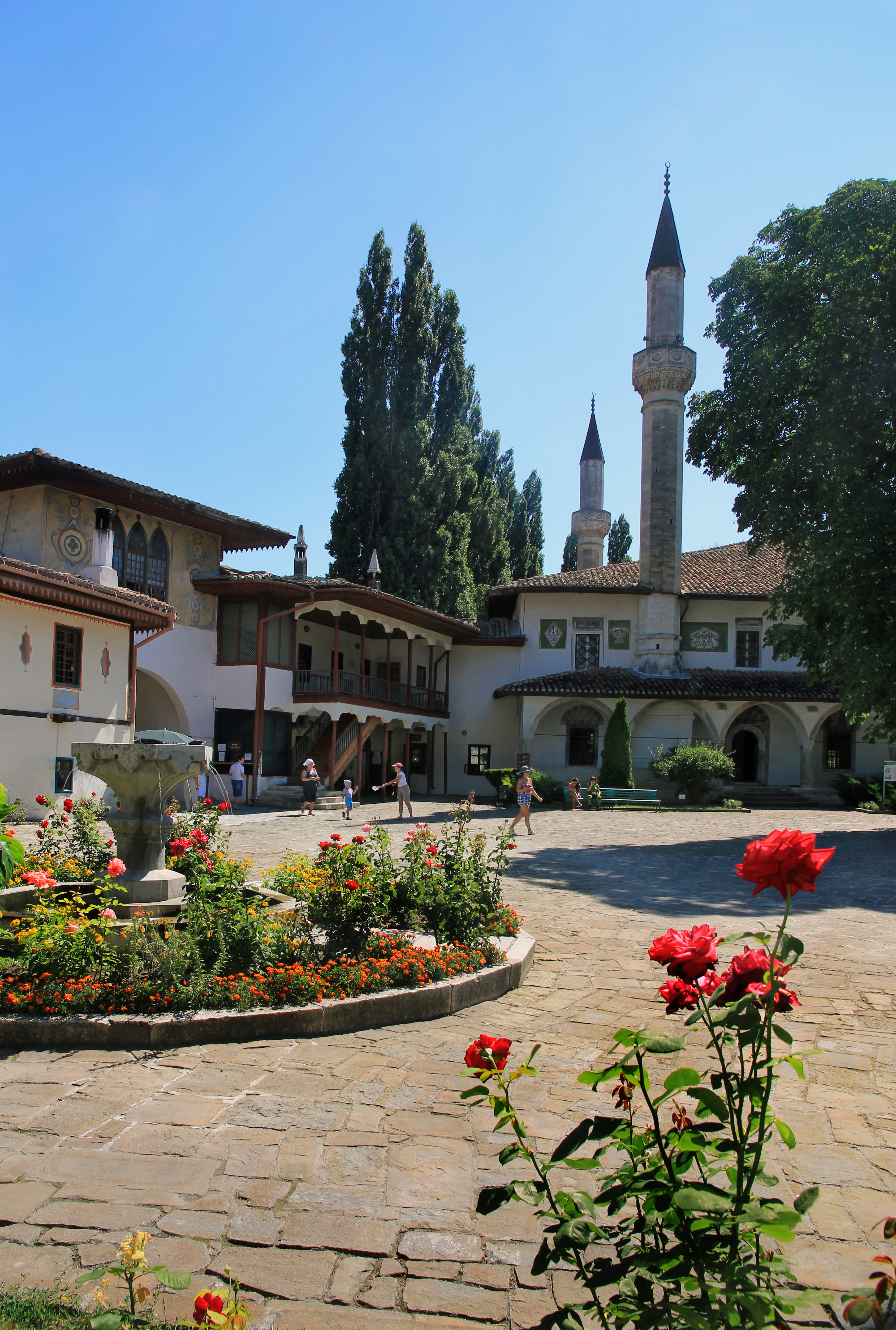 The Bakhchisaray Palace in Bakhchisaray, Crimea